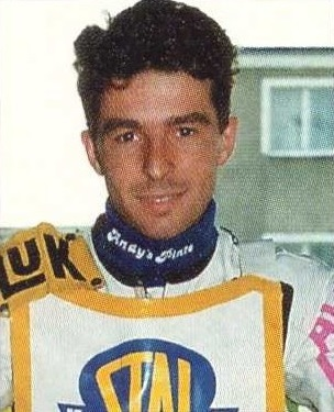 Klaus Lausch in the Polish speedway team Stal Gorzow during the 1992 season.